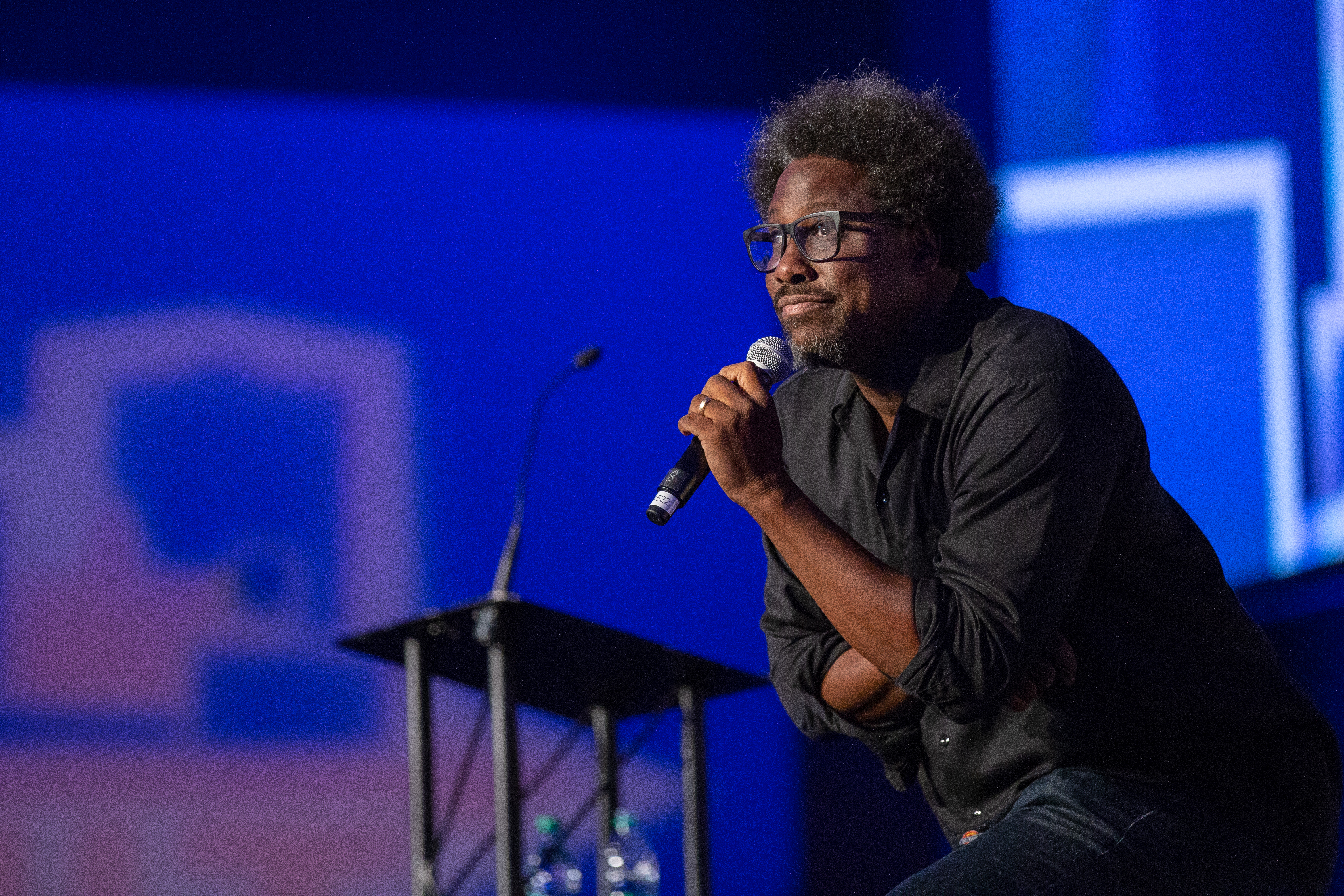 Comedian/author W. Kamau Bell delivers the opening keynote on the first day of the summit. Photos taken for work at the 3rd annual Summit on School Climate and Culture, a national conference sponsored by Des Moines Public Schools.